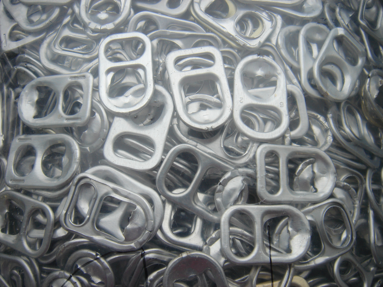 A jumble of ring pulls from drink cansCan Thingies